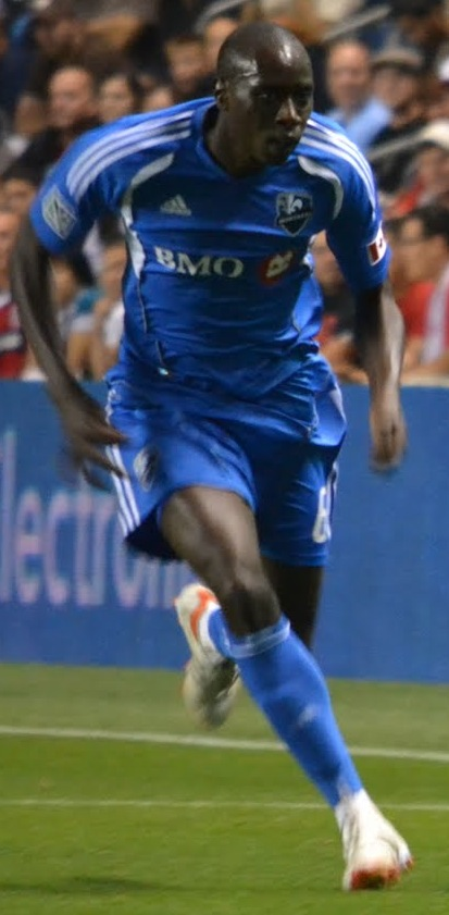 Hassoun Camara of Montreal Impact